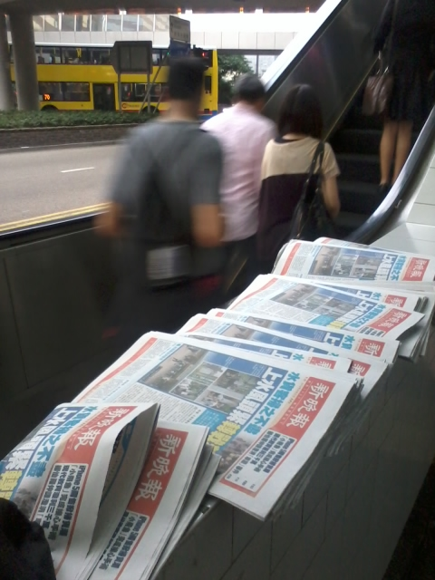 World Wide House, Connaught Road Central, Hong Kong